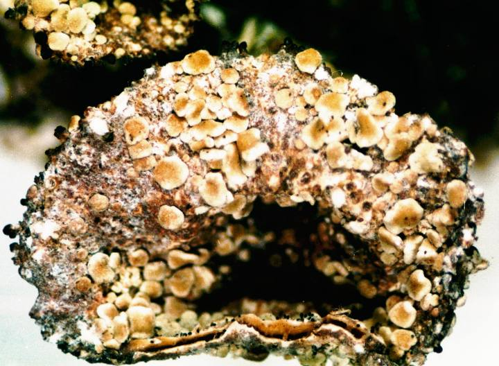 Cladonia pyxidata (L.) Hoffm., 1796 (photograph of a herbarium specimen taken through a dissecting microscope (x15) showing flat areoles inside the cup) Growing at the base of Nyssa sylvatica at the Cocoran Environmental Study Area, Log Inn Road, Anne Arundel County, Maryland, USA; collected and identified by Elmer George Worthley (No. L-70, 16 Feb 1984); specimen is now in the Lichen Herbarium of the New York Botanical Garden.